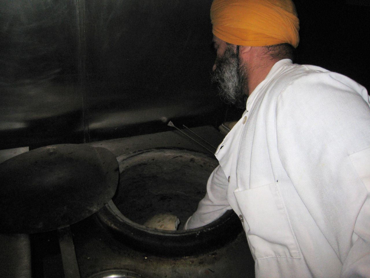 Tandoor